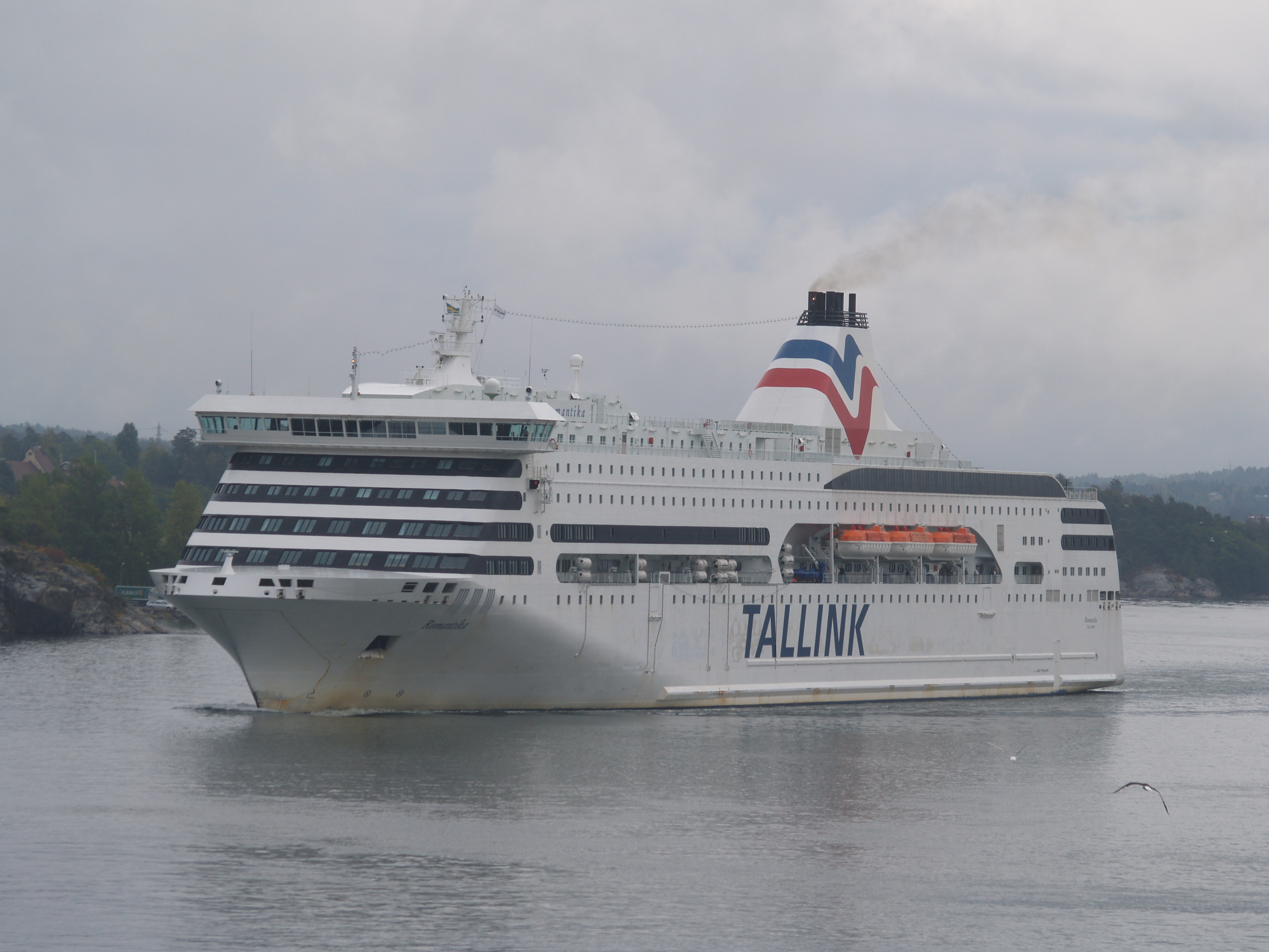 IMO number : 9237589 Name of ship : ROMANTIKA Call Sign : YLBT Gross tonnage : 40803 Type of ship : Passenger/Ro-Ro Cargo Ship Year of build : 2002 Flag : Latvia Status of ship : In Service